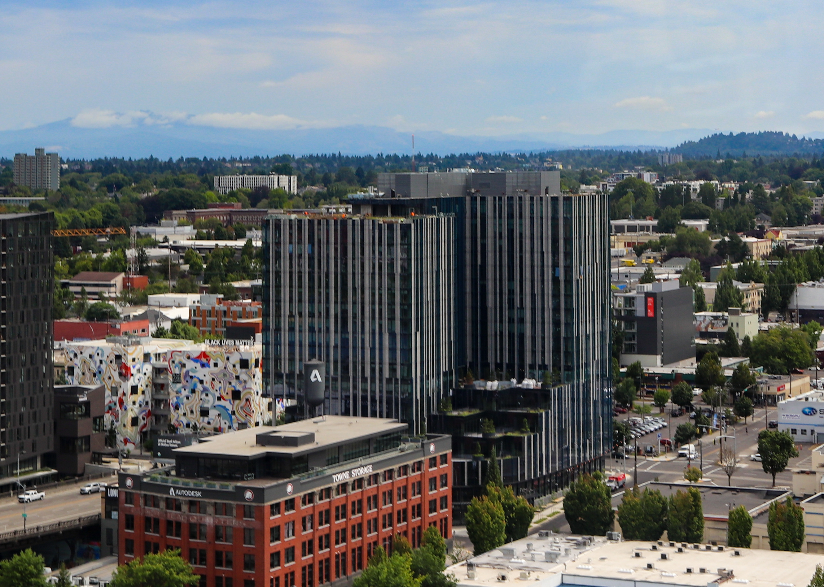 The 5 MLK building in Portland, Oregon. Autodesk (Towne Storage) and Fair-Haired Dumbbell also visible.